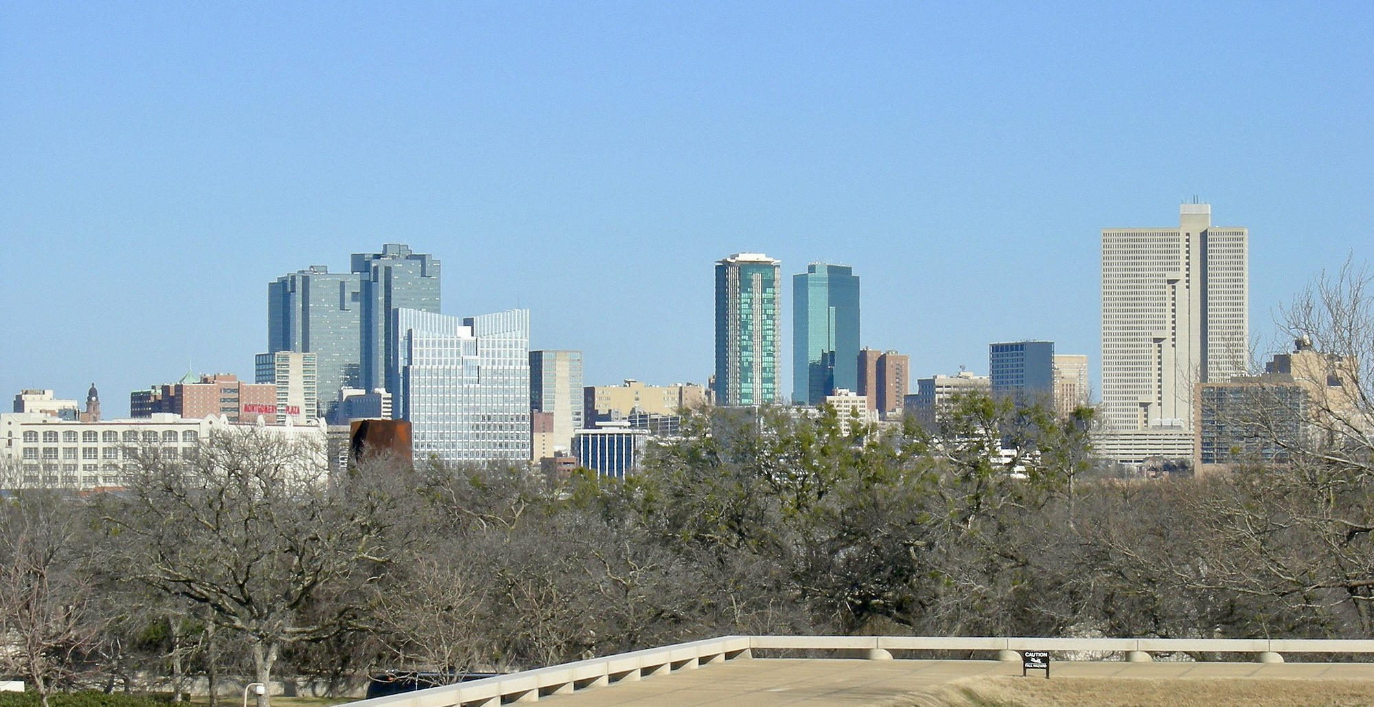 View of Fort Worth, Texas from the Amon Carter Museum. The rust-colored structure (center left) is the top of a Richard Serra sculpture at the Fort Worth Museum of Modern Art.